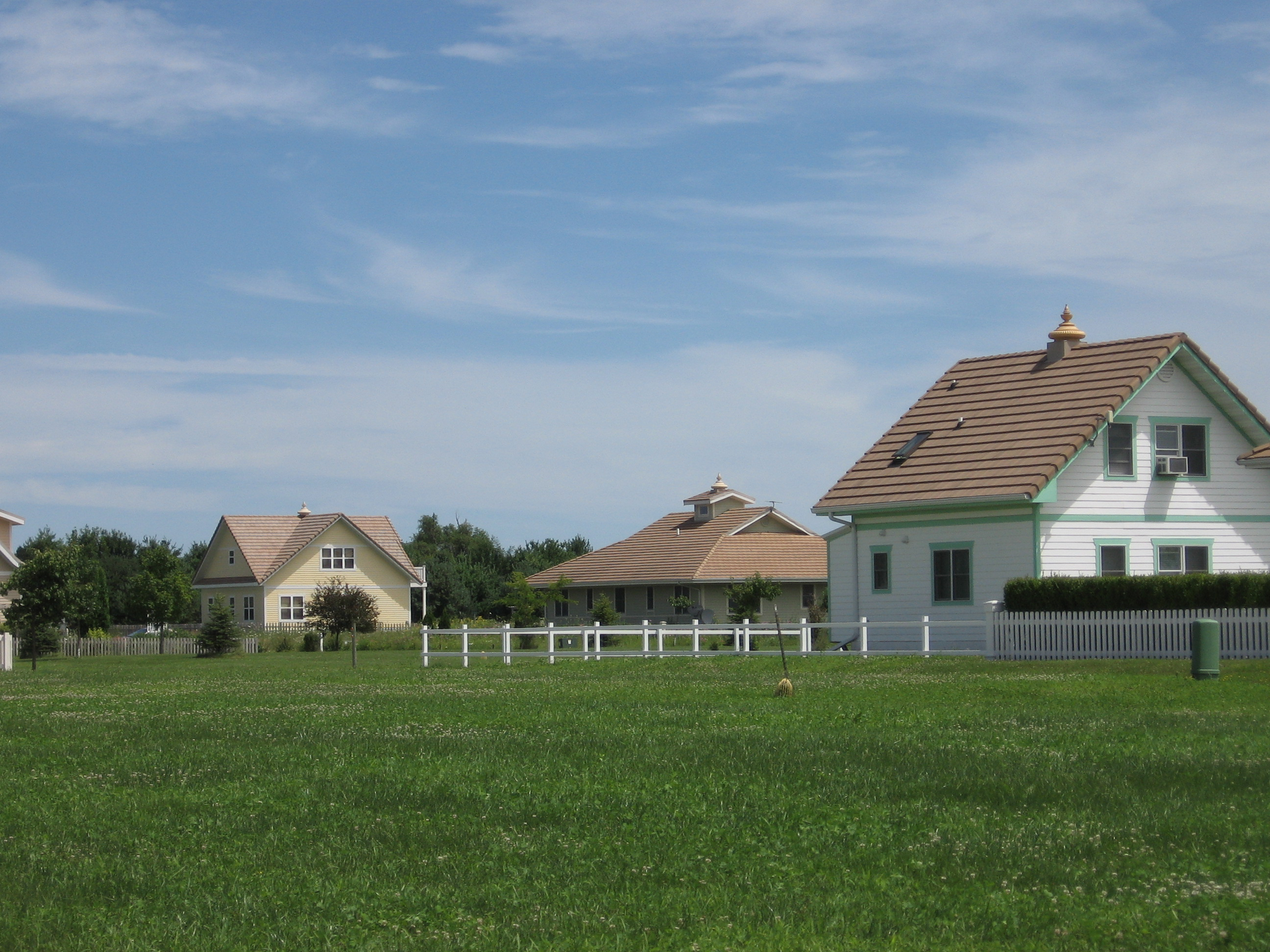 Houses in Maharishi Vedic City, Iowa